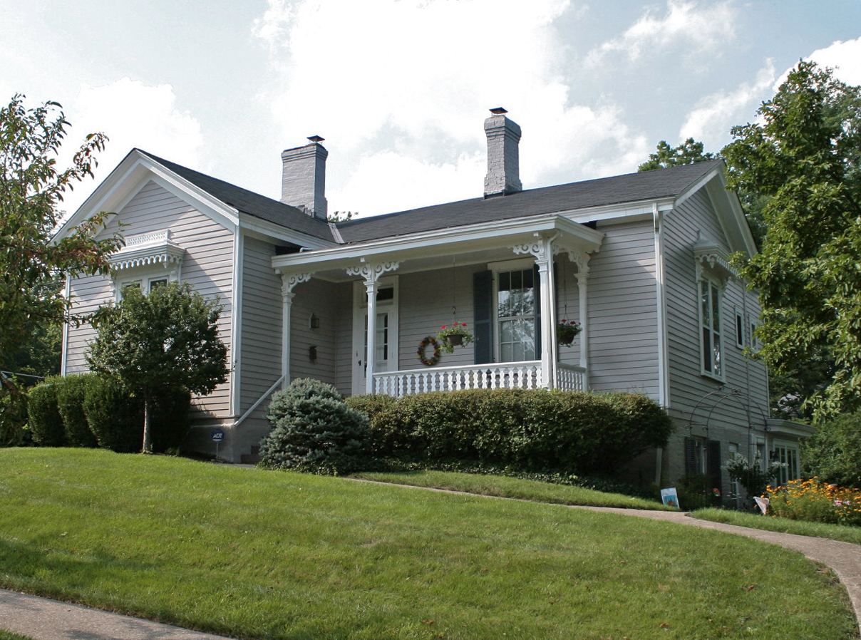 John C. Pollock house in Wyoming, Ohio Photo by Greg Hume.